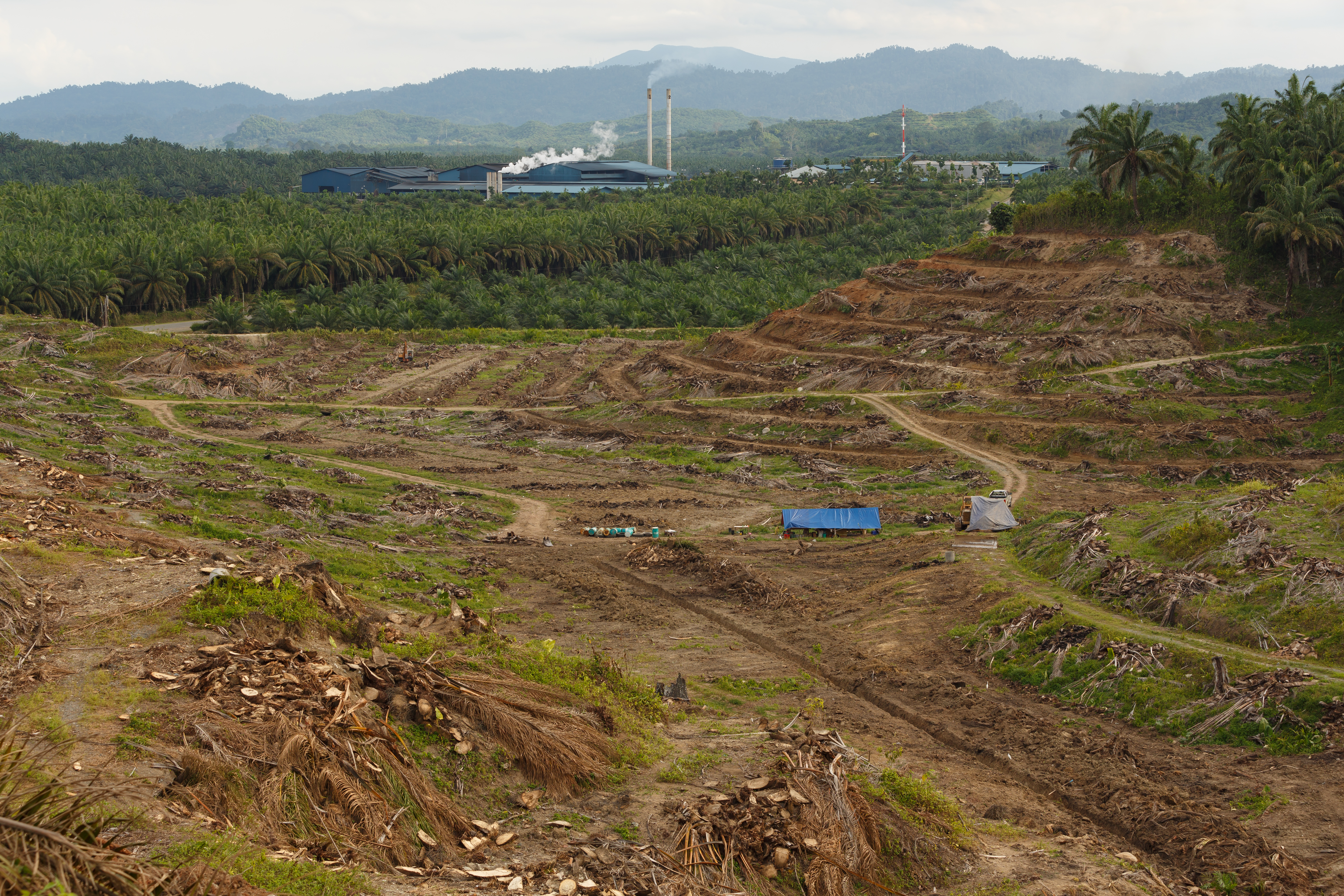 Sungai Mangis, Sabah: Tamaco Oil Mill 2 and surroundings. The foreground area is subject to replanting young oil palms after removing the old trees.)